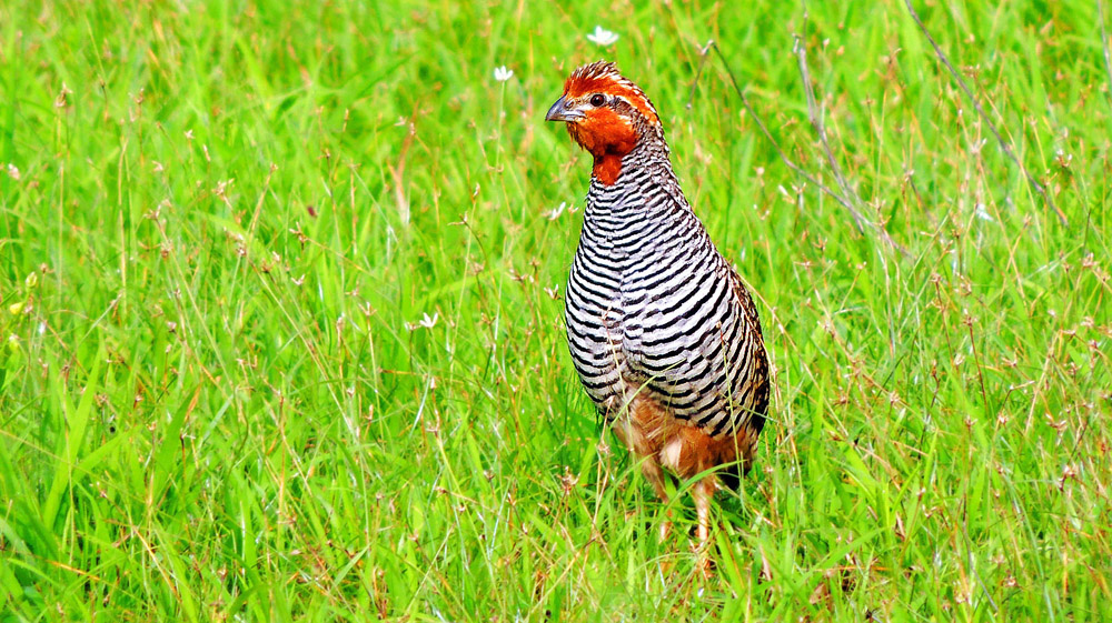 Jungle Bush-Quail (Perdicula asiatica)